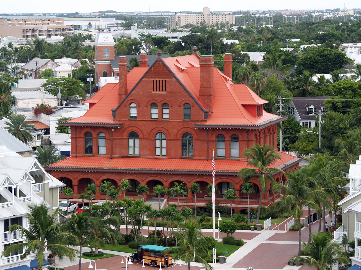 Old Post Office and Customshouse